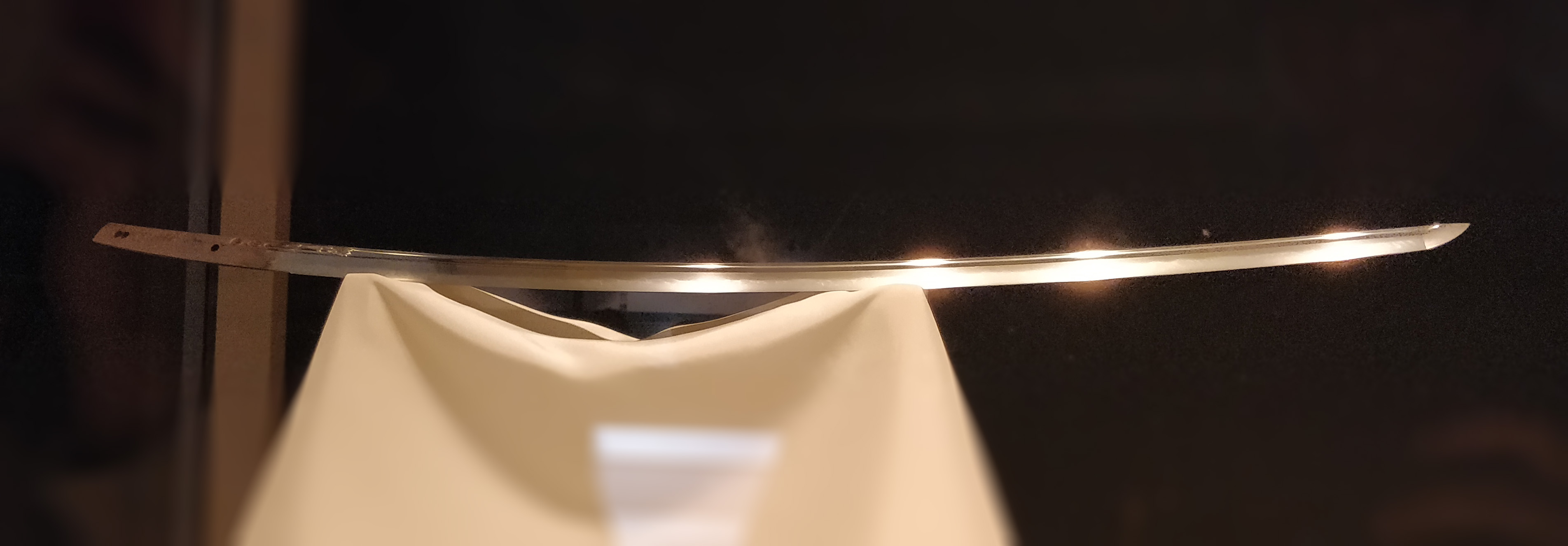 The tachi nicknamed Koryuu Kagemitsu in the Tokyo National Museum